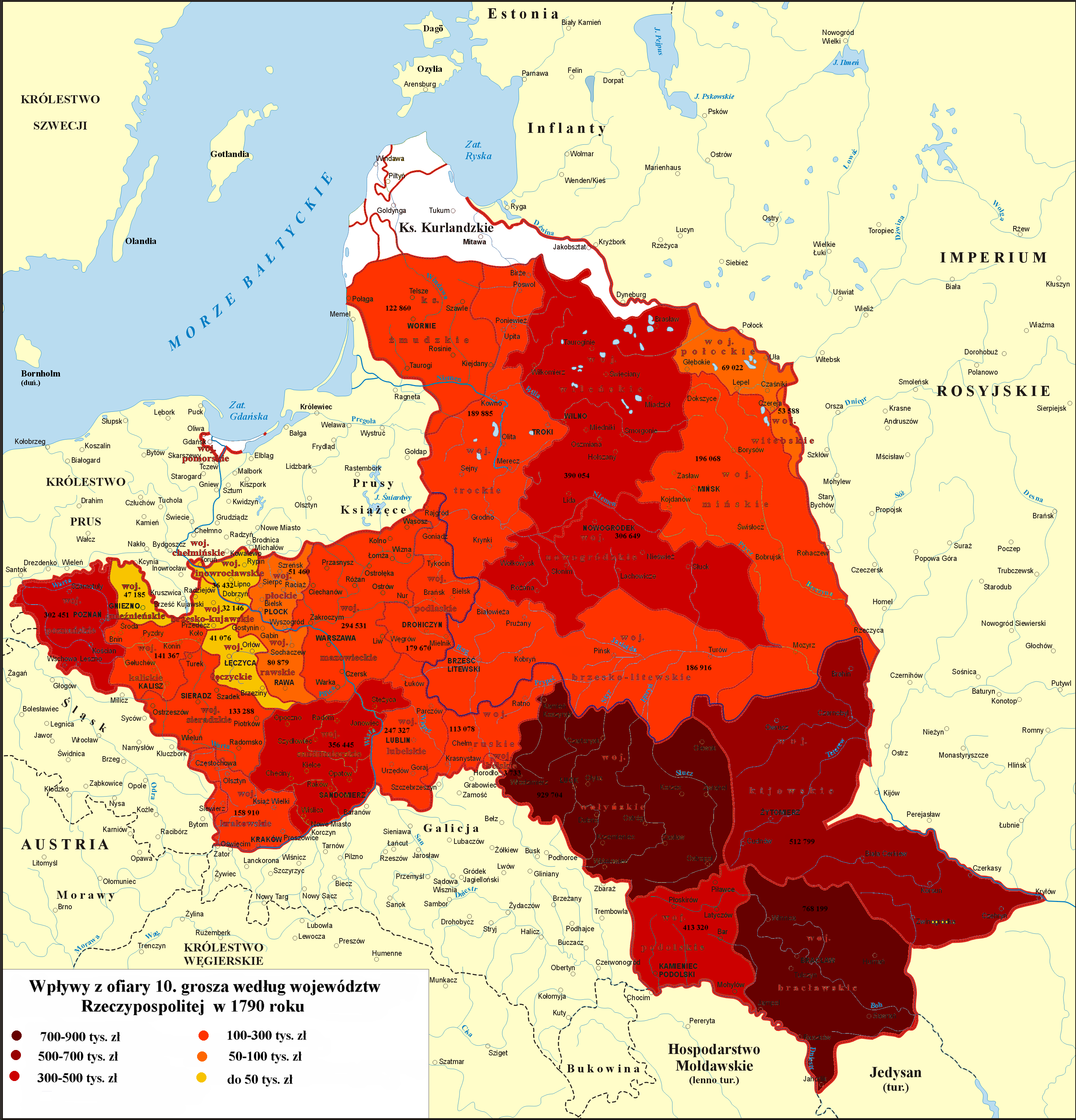 Amount of the Tenth Grosz Contribution in the Polish-Lithuanian Commonwealth in 1790